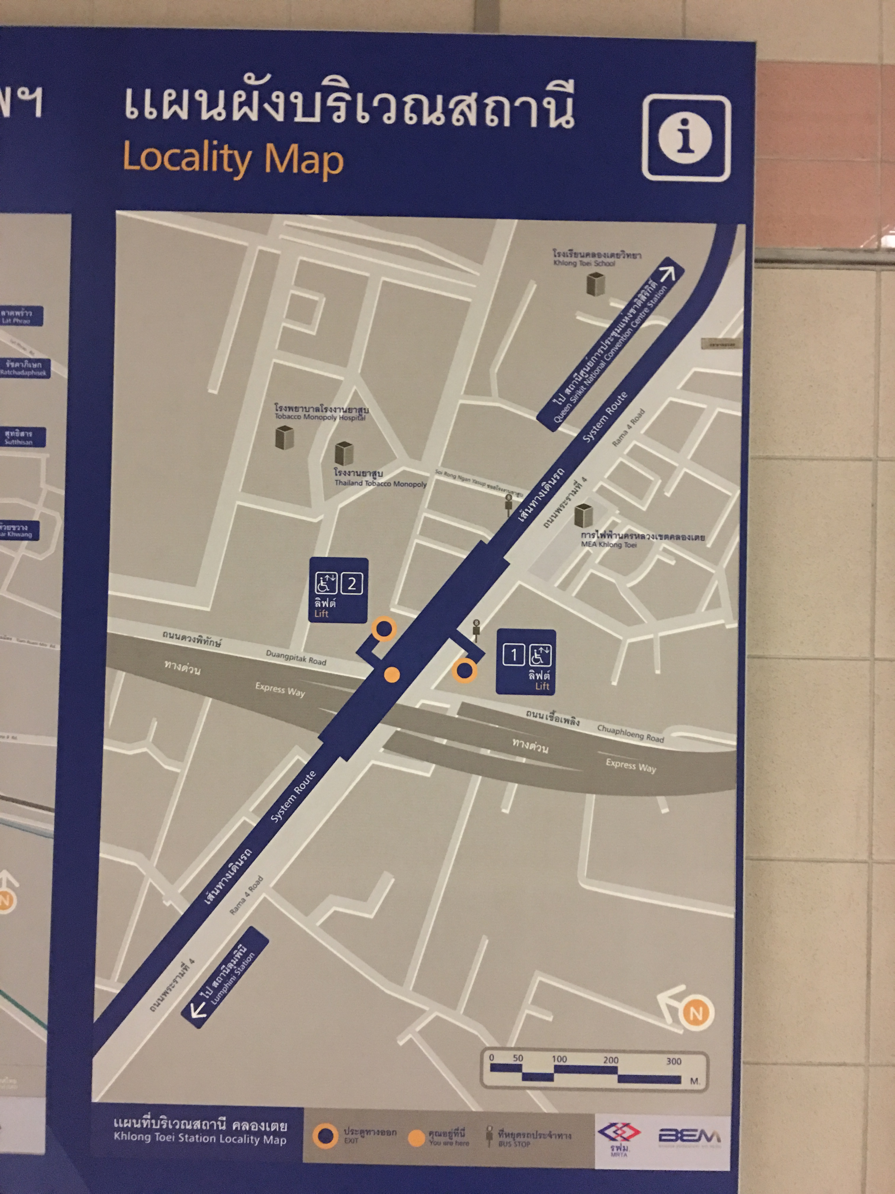 The locality map of Khlong Toei Station